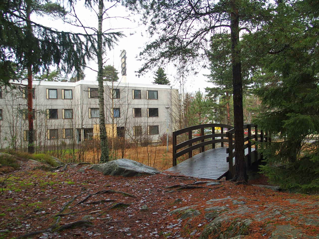 Park and pedestrian bridge between 1970s apartment buildings in Vaisaari suburb, Raisio, Finland.